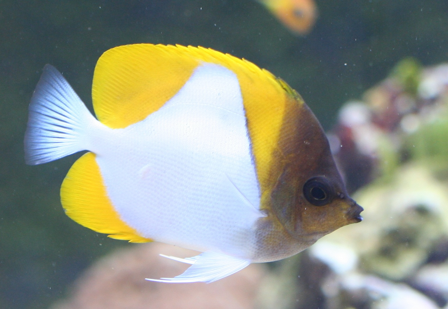 Hemitaurichthys polylepis